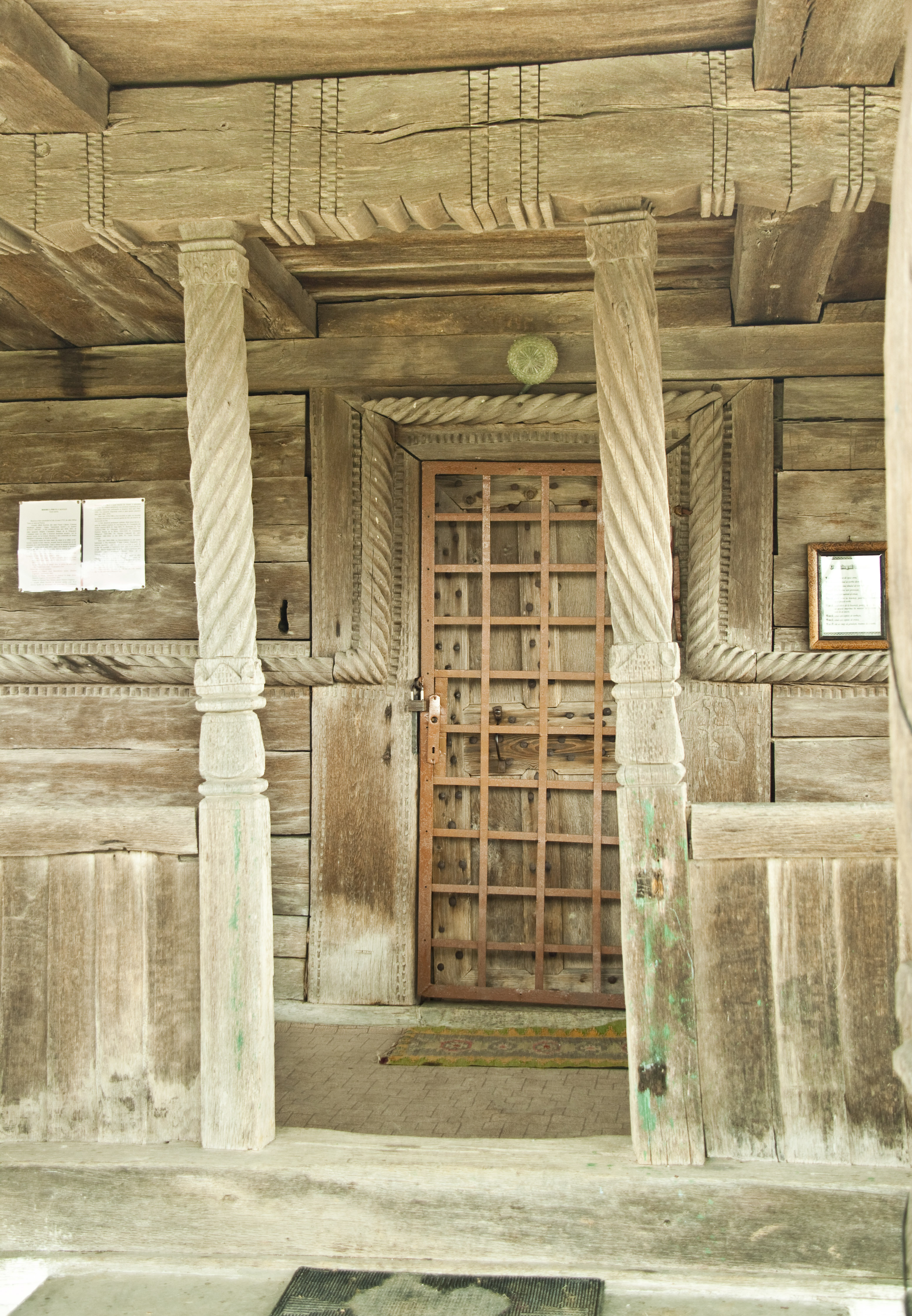 Wooden church in Morăreşti - Piscu Calului.